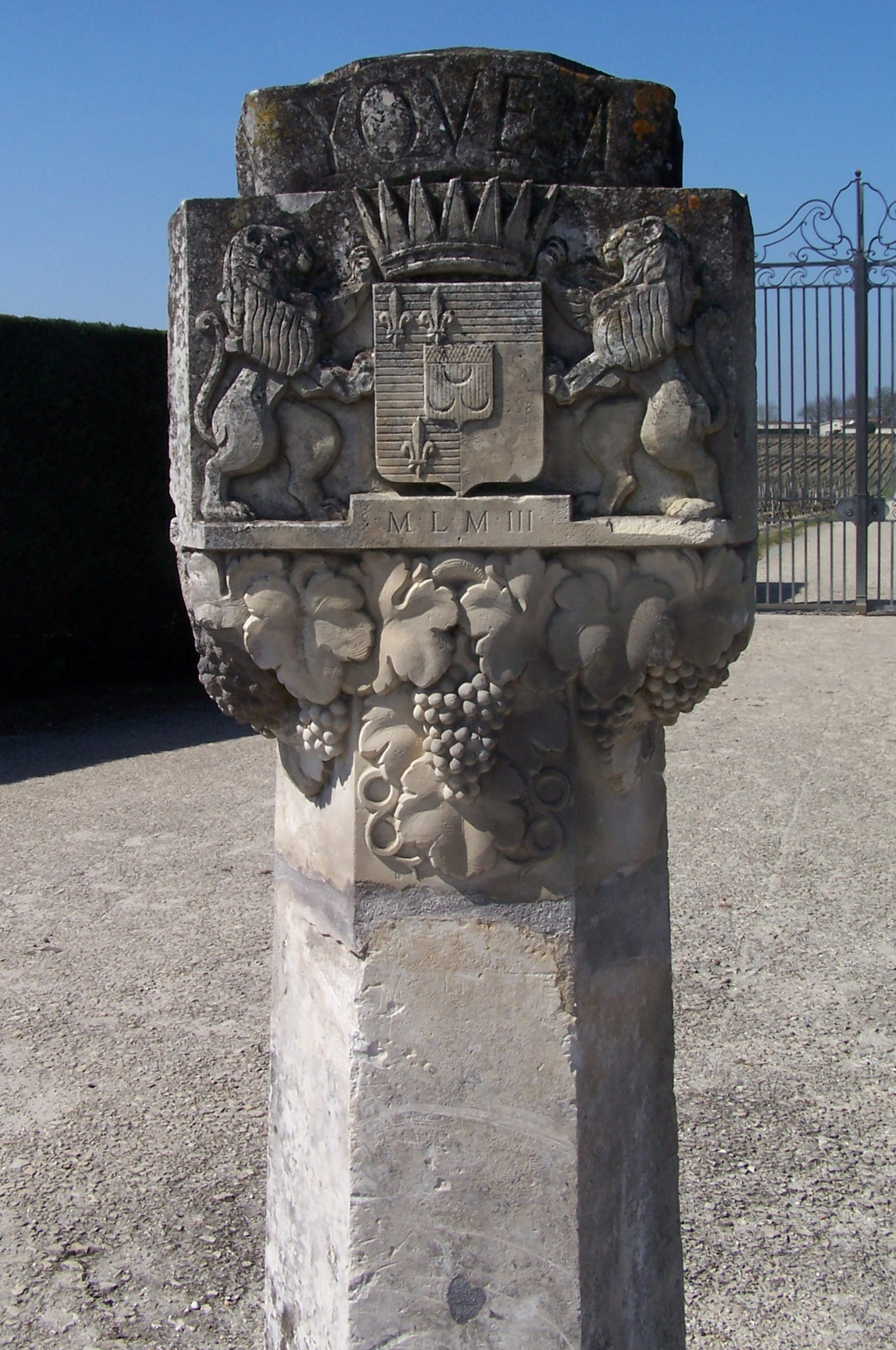 Coat of arms of the château d'Yquem in Sauternes (Gironde, France)